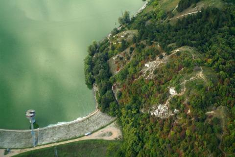 Kincsesbánya, Hungary, aerialphotography